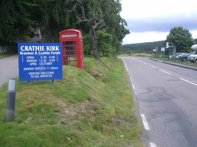 Telephone kiosk outside Crathie Kirk (A93)